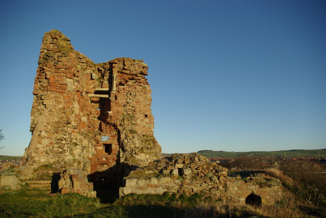 Ardrossan Castle Originally a property of the Barclays, it later came into the ownership of the Ardrossans of that Ilk and finally the Montgomeries. Once abandoned, a quantity of stonework was removed by Cromwell to build his Citadel at Ayr. William Wallace is said to have taken the castle, murdered the garrison and thrown them into the dungeon which later became known as Wallace's Larder. Wallace's ghost is said to appear on stormy nights. The visible remains of the castle date mainly from the 15th-century.